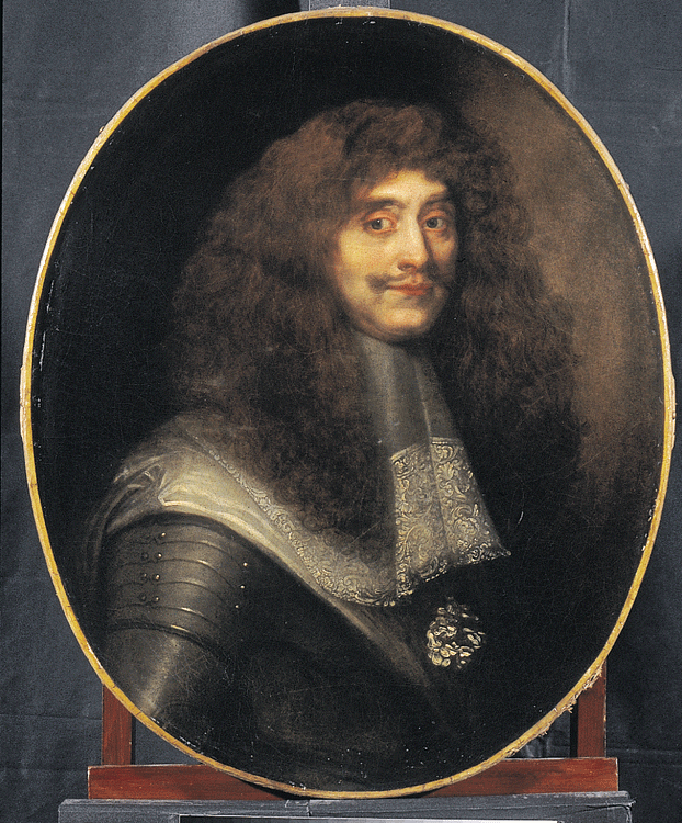 ArtistUnknownTitle